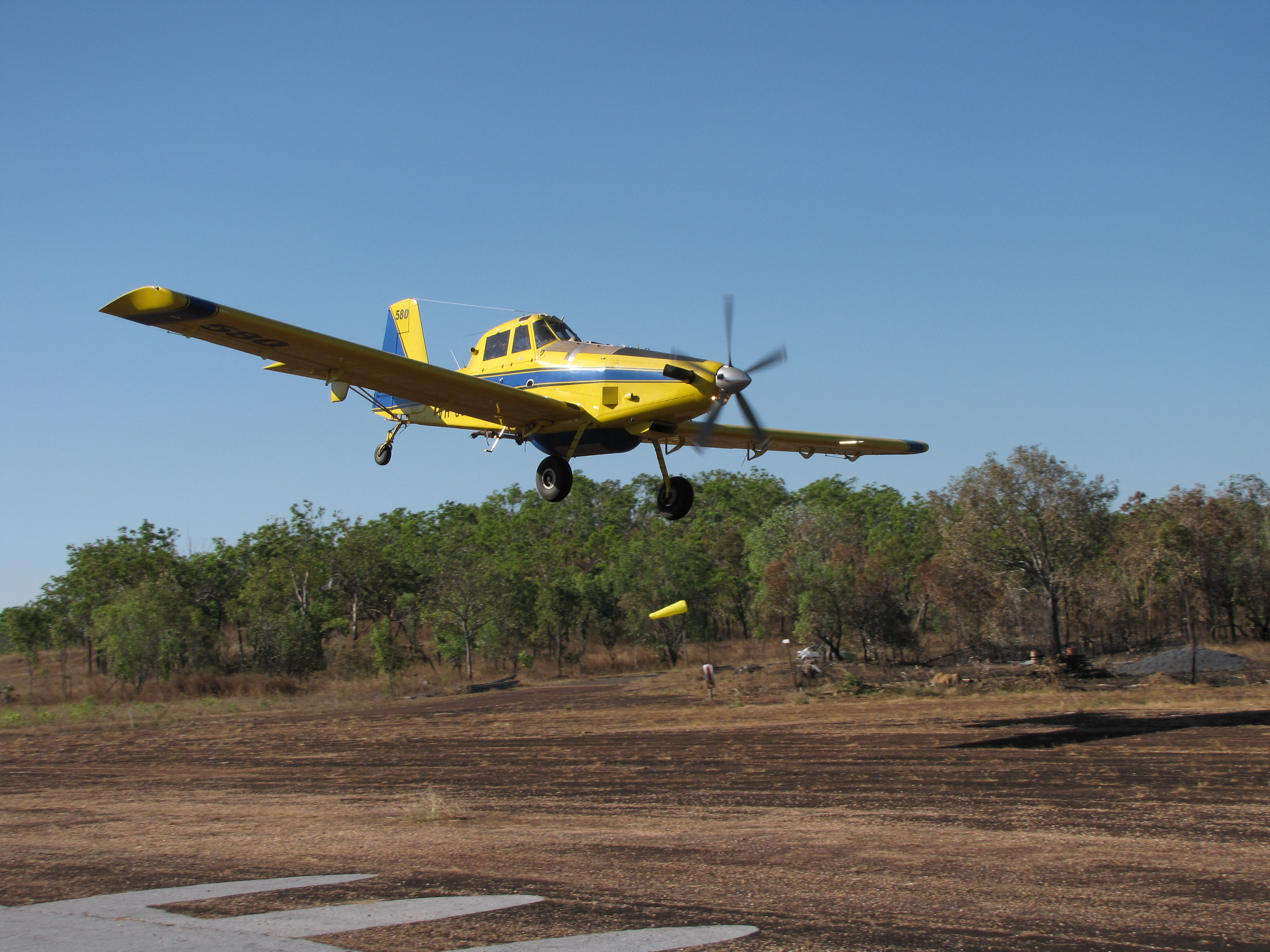 Bomber 580 Air Tractor AT802 (VH-ODW).